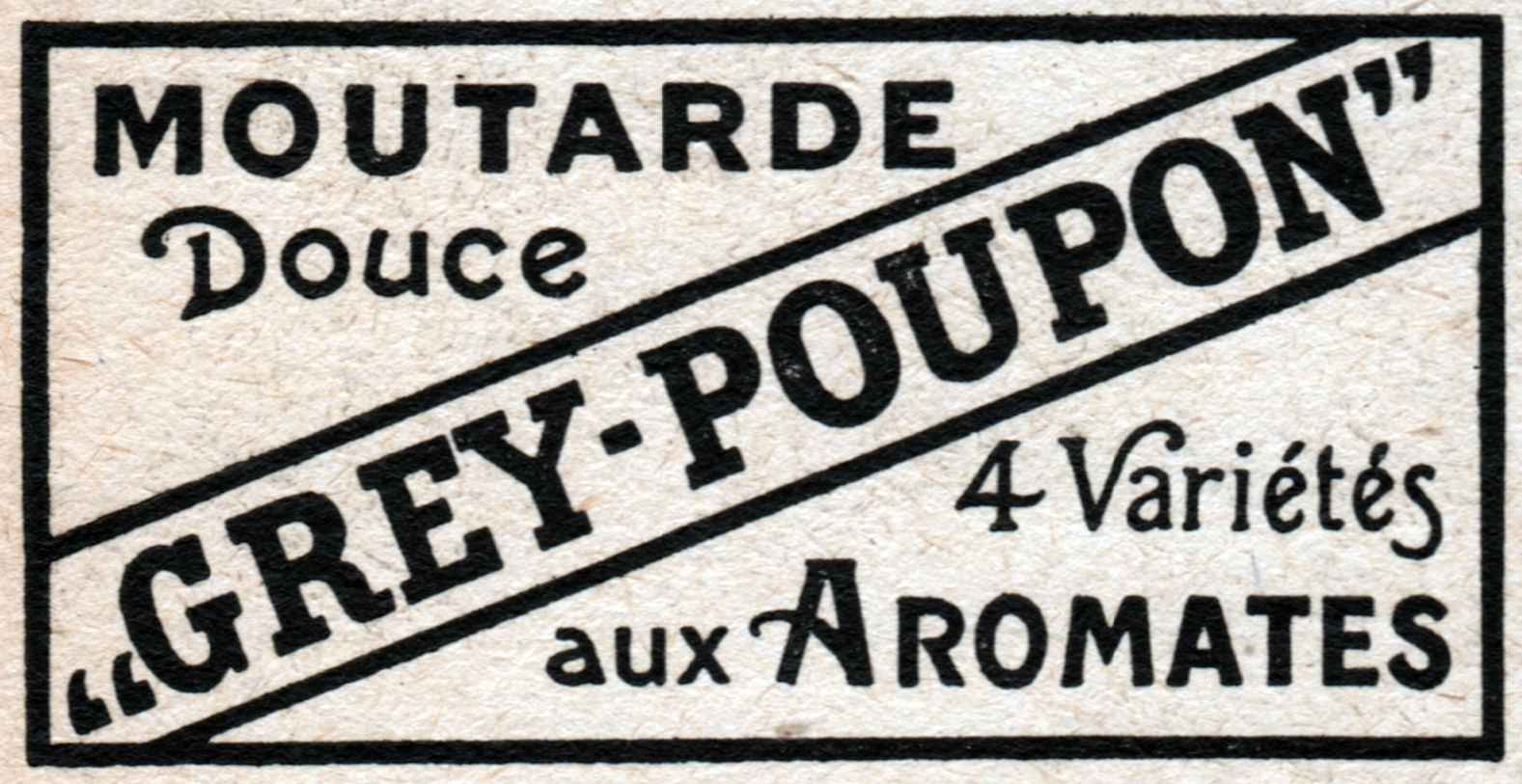 Scan of L'ILLUSTRATION No 3905 5 Janvier 1918.